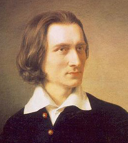 Portrait von Joseph Haydn